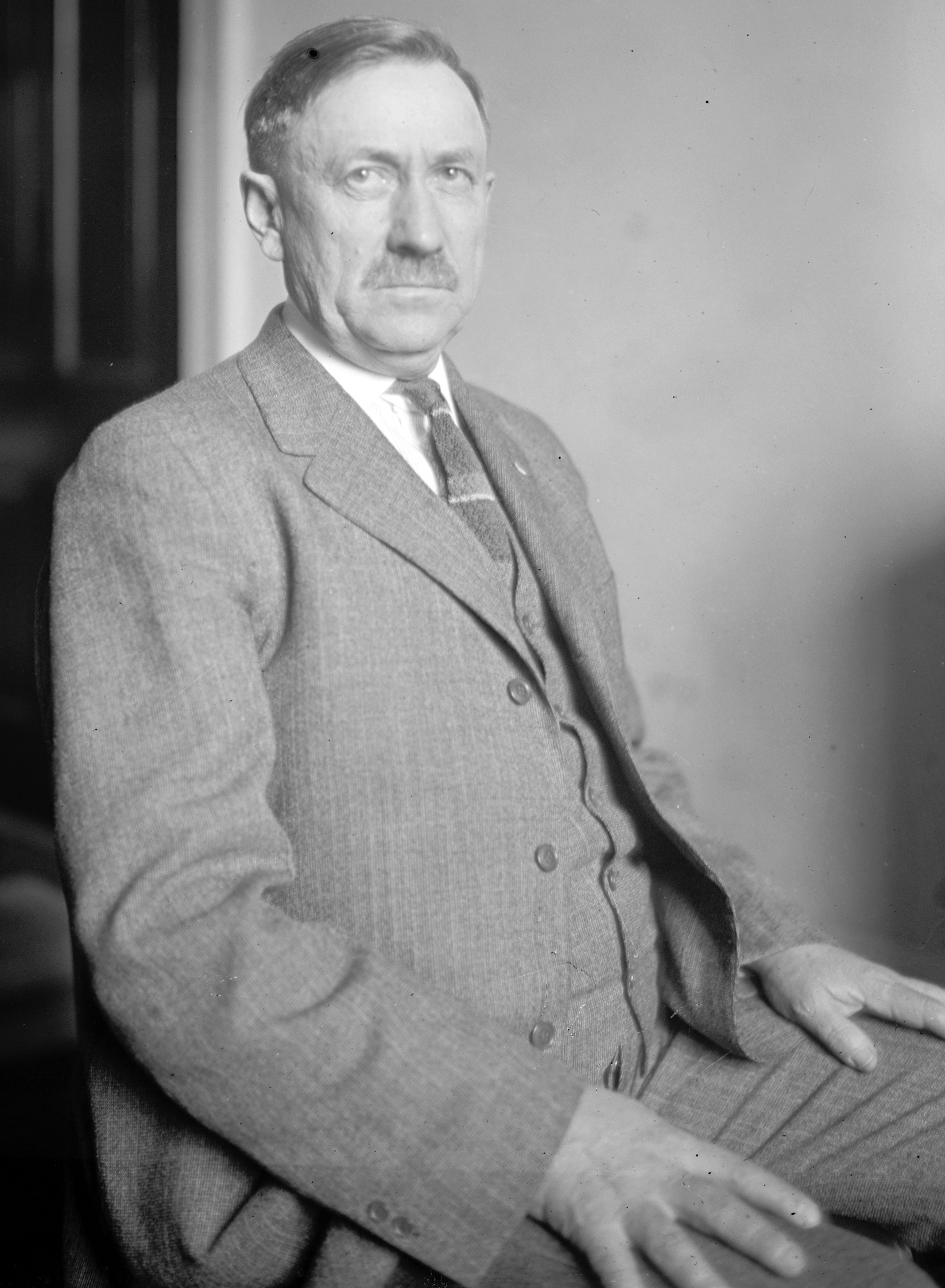 Knud Wefald, US Representative from Minnesota